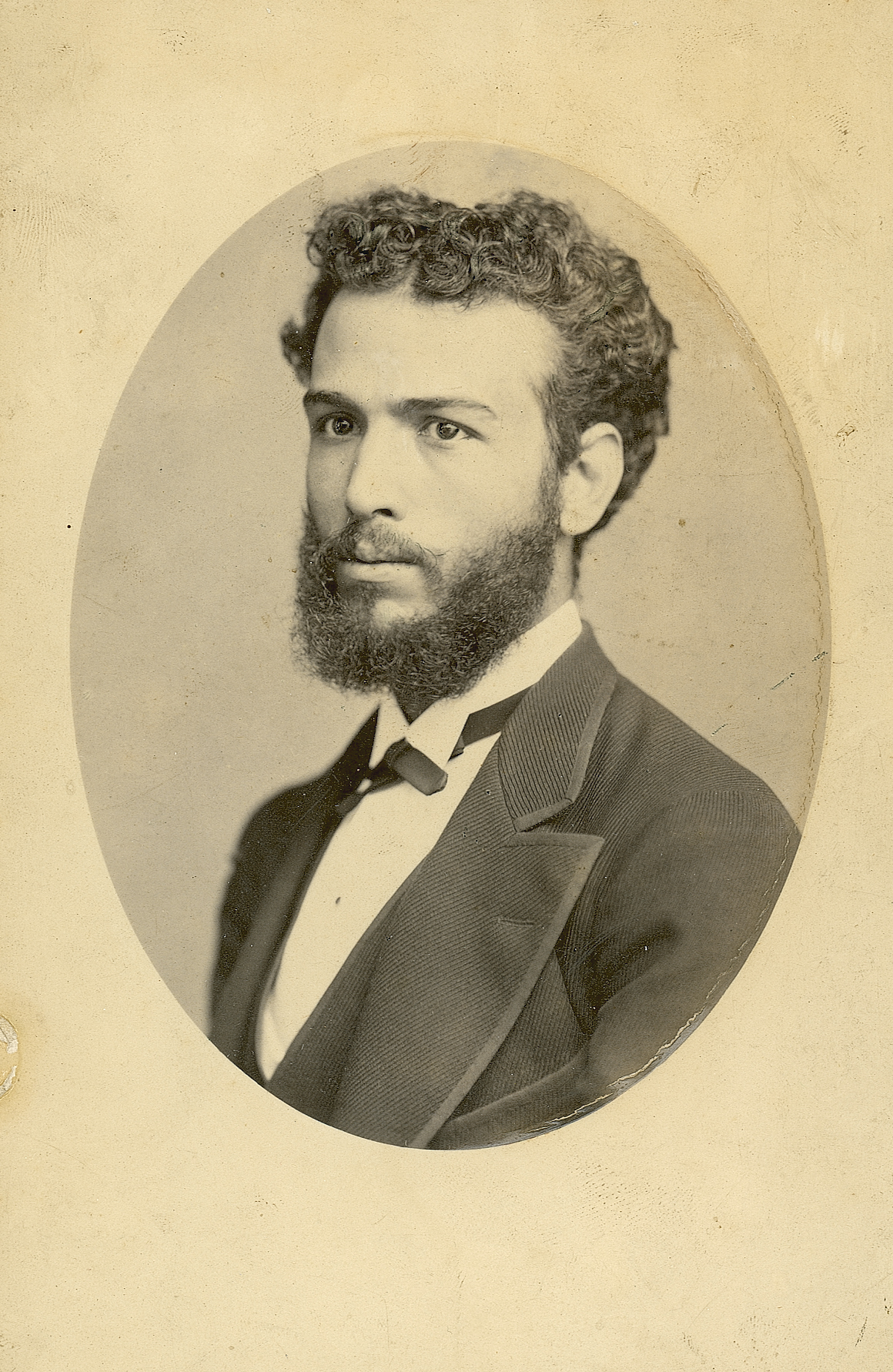 Portrait of an unknown man by Antonio García Peris. 1880